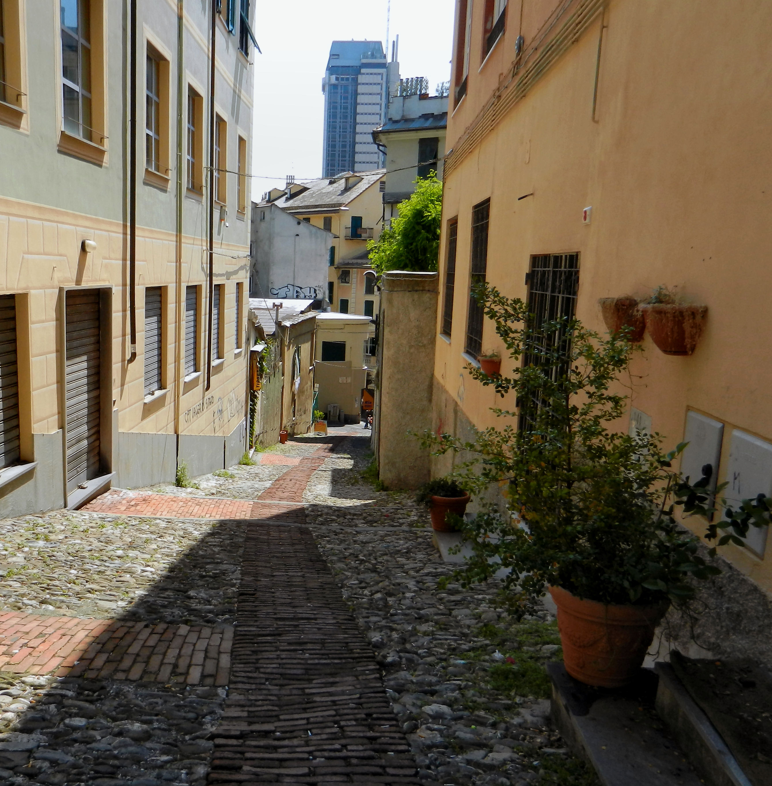 Genoa (Italy), quarter of San Vincenzo, Uphill of Tosse